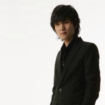 kim hui been